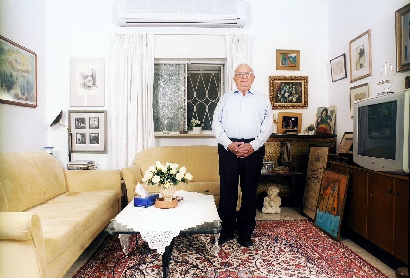 Art of Israel